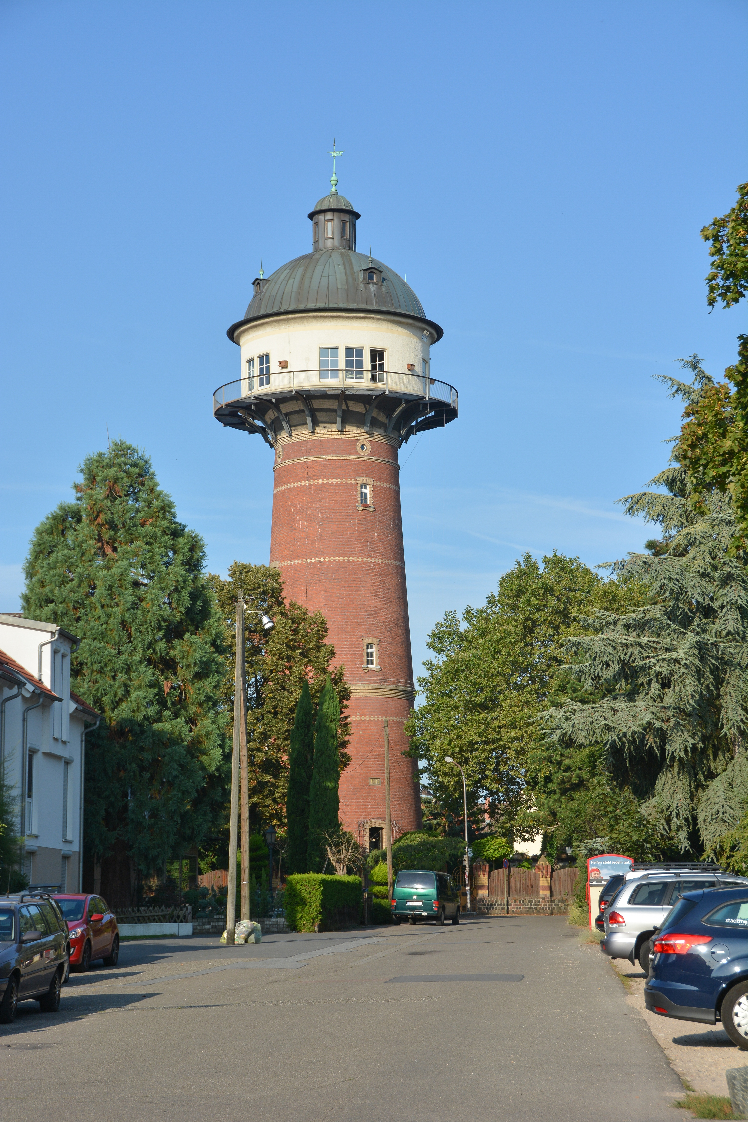 Watertower of Mannheim-Feudenheim (Germany)